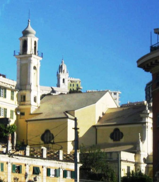 Genoa (Italy), quarter of San Teodoro, church of St. Vincent de Paul